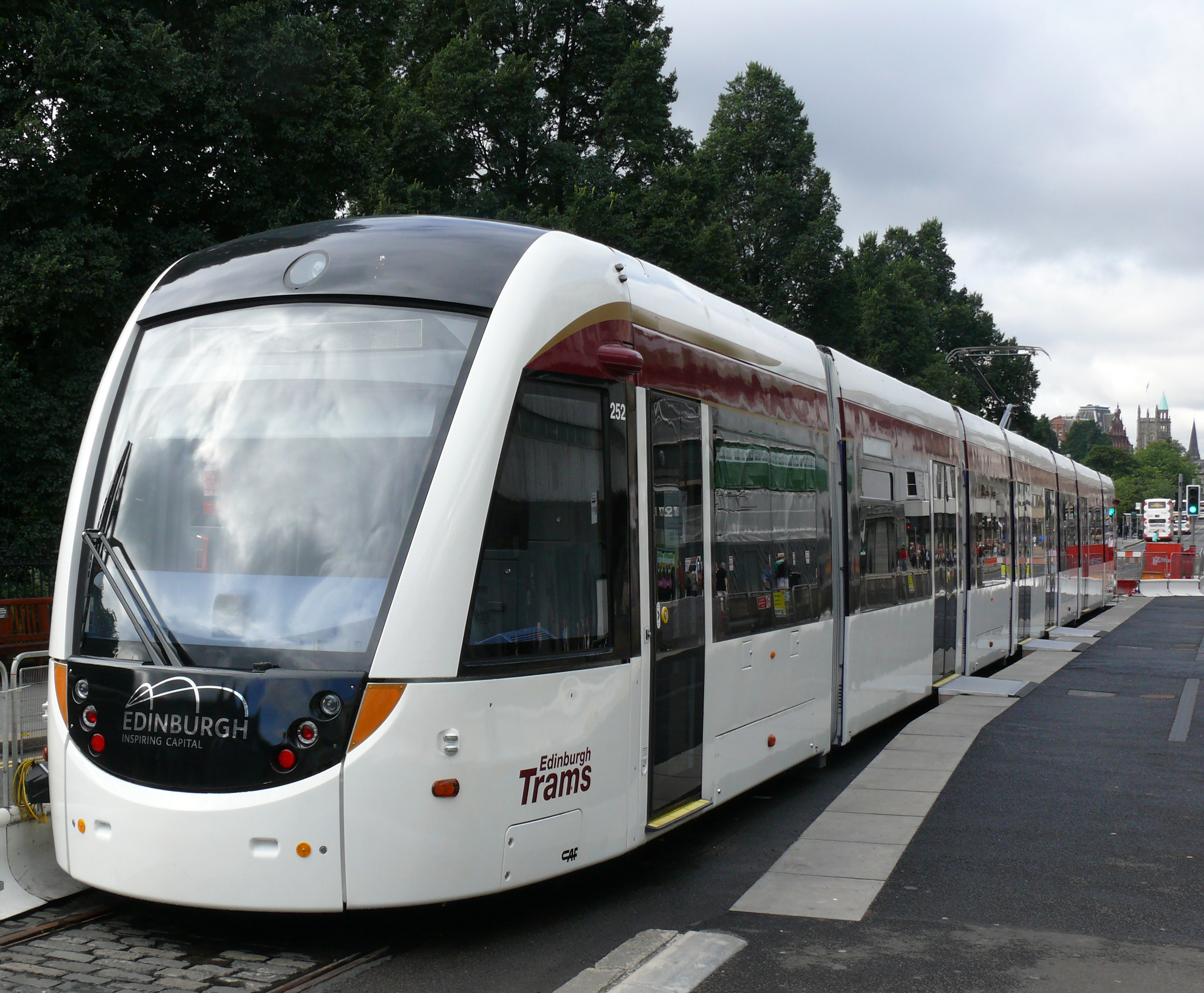 The first completed tram vehicle of Edinburgh Trams on exhibit on Princes Street between The Mound junction and Frederick Street in August 2010.